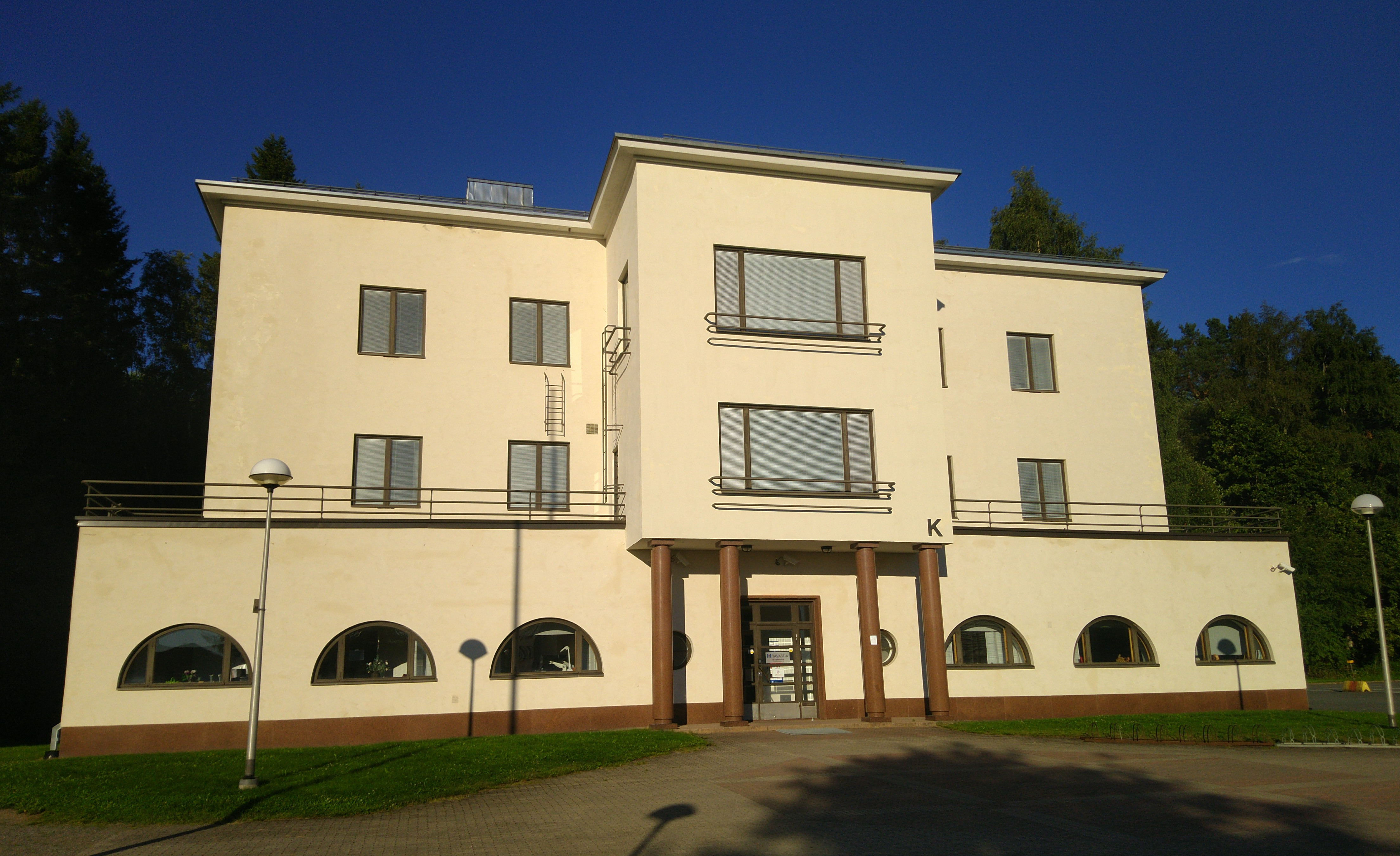 Aartelan talo in Hämeenlinna, Finland. It's a functionalistic building built in 1924 and designed by architect Toivo Tuovinen.